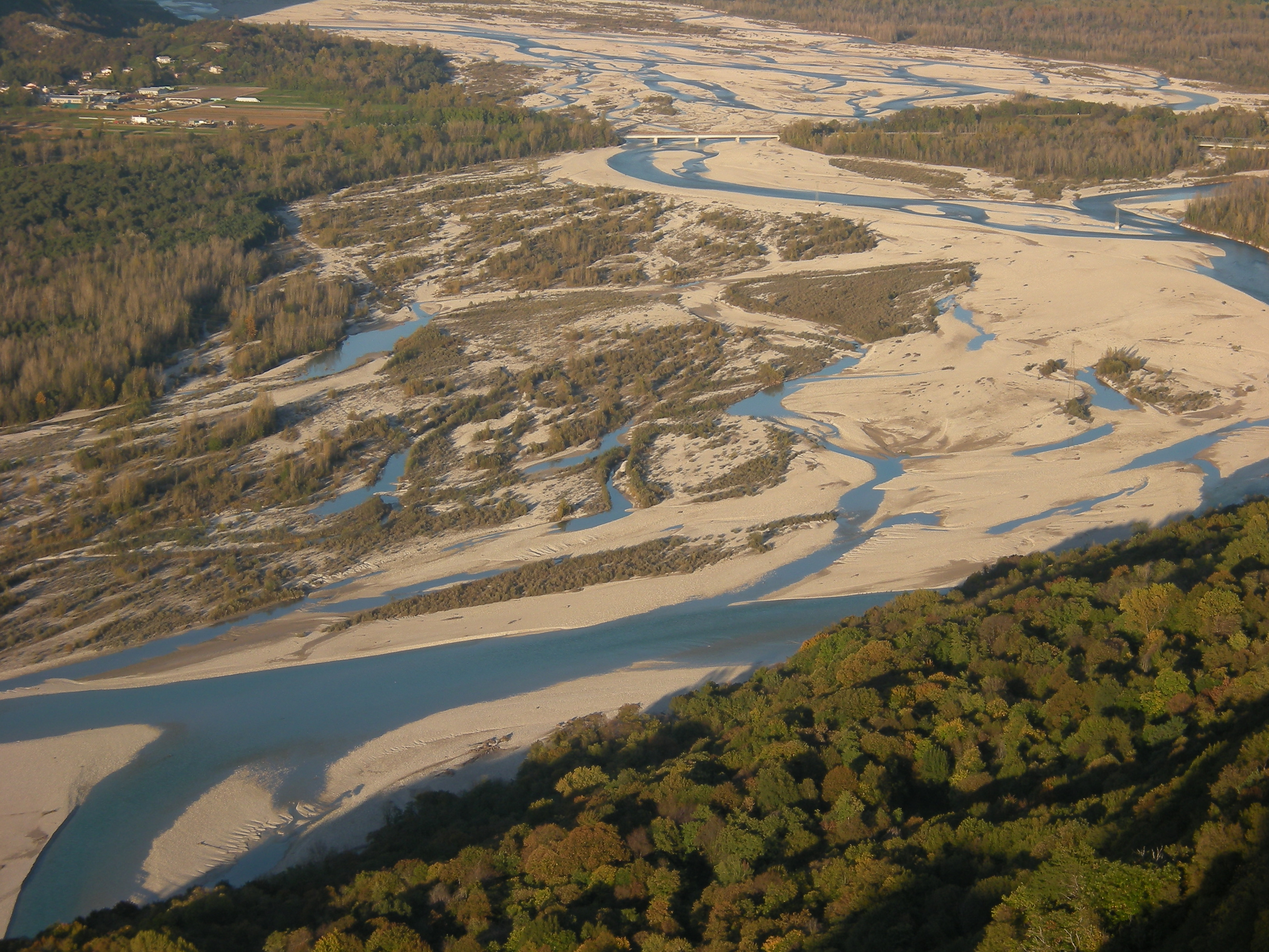 The braided channels of Tagliamento river in Cornino (province of Udine)